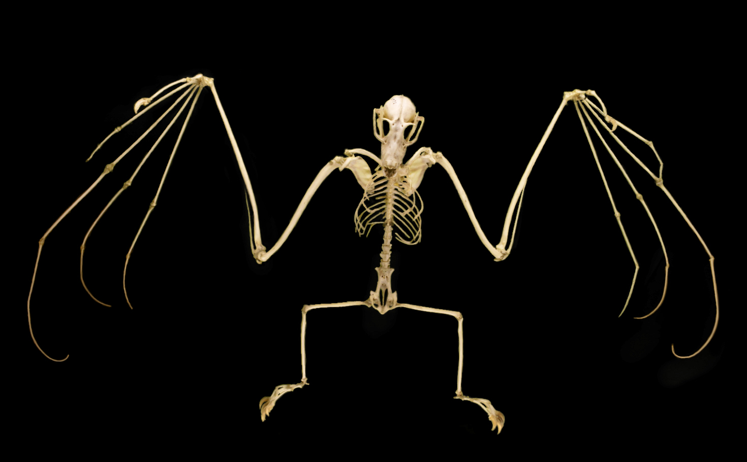 Skeleton af a Samoa Flying Fox, image taken in the Smithsonian National Museum of Natural History